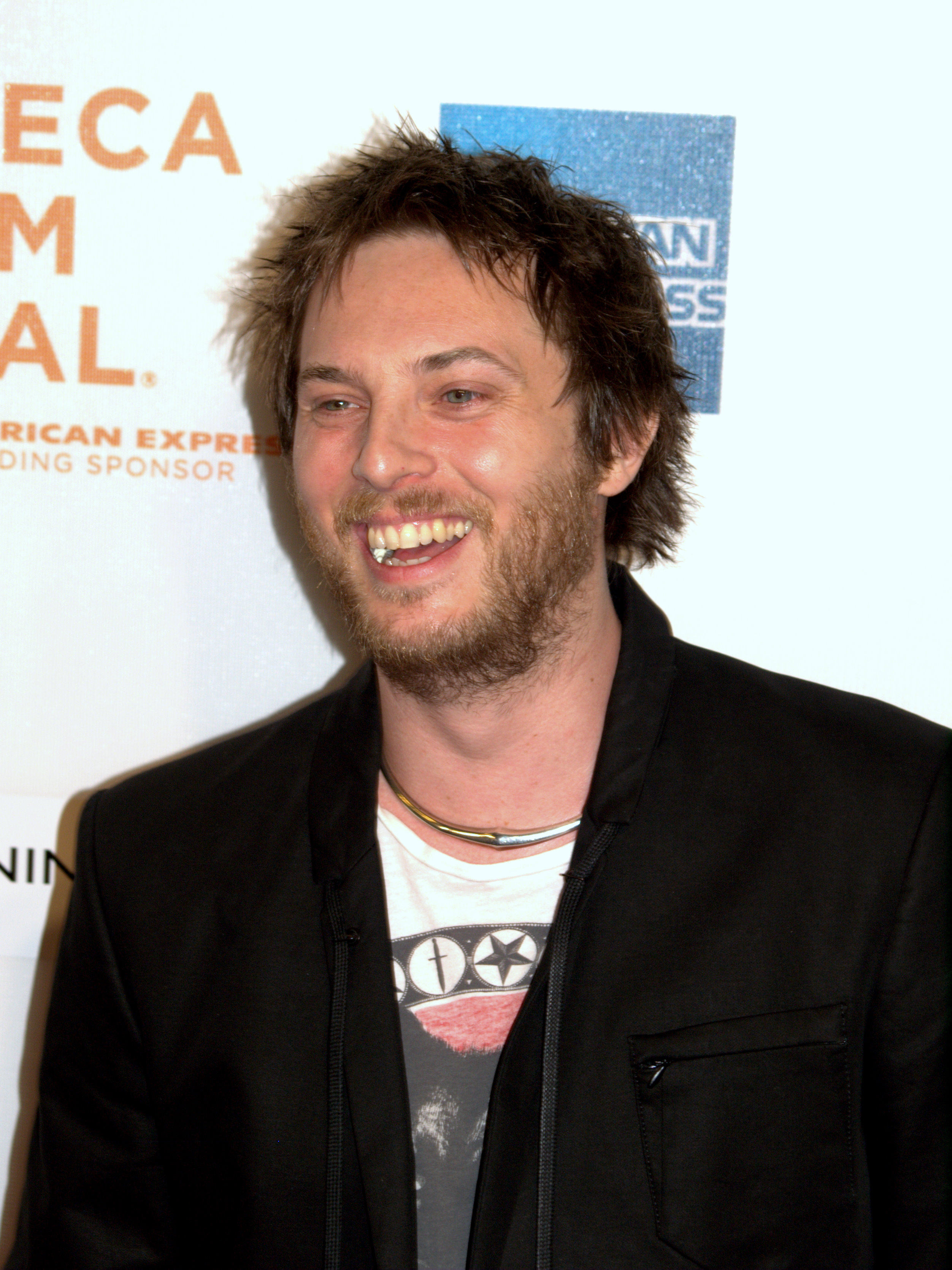 Duncan Jones at the 2009 Tribeca Film Festival for the premiere of Duncan Jones's film Moon. Photographer's blog post about this event.